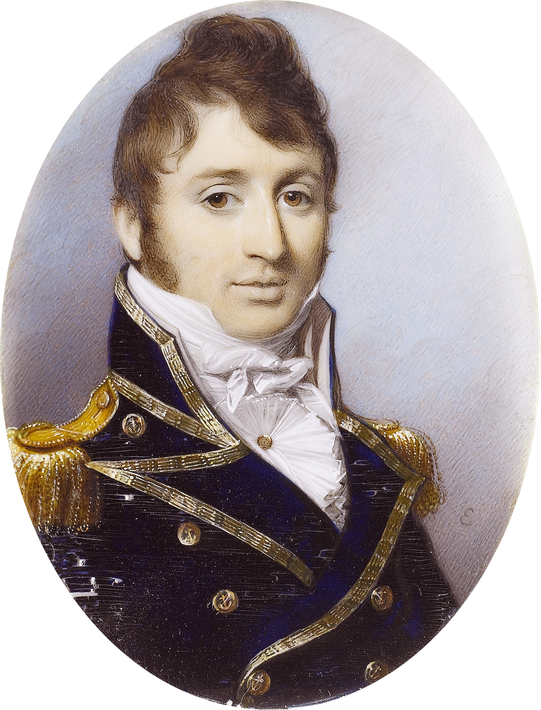 Portrait of Charles Malcolm (1782–1851), Scottish Royal Navy officer.